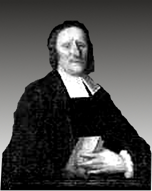 Olof Broman 1676-1750, swedish vicar and rector. Beholds to be together with Urban Hiärne Swedens first novel writer.